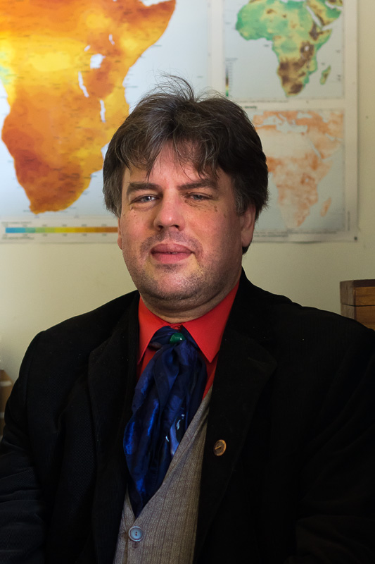 Arni Alandi